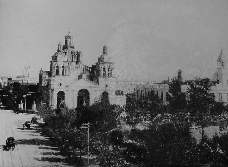 Cathedral and San Martin square. San Jeronimo street. Cordoba, Argentina.